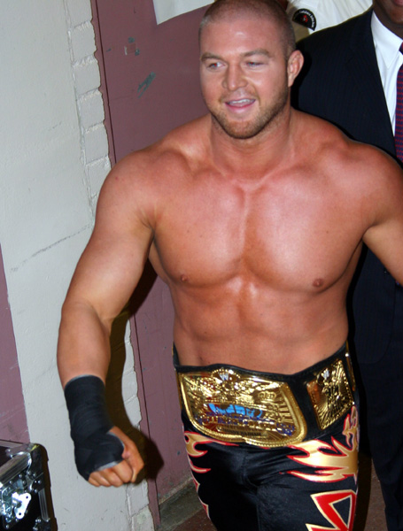 Danny Basham (real name Danny Holly) makes his entrance on a WWE house show held in Kitchener, Ontario, Canada on January 15, 2005.